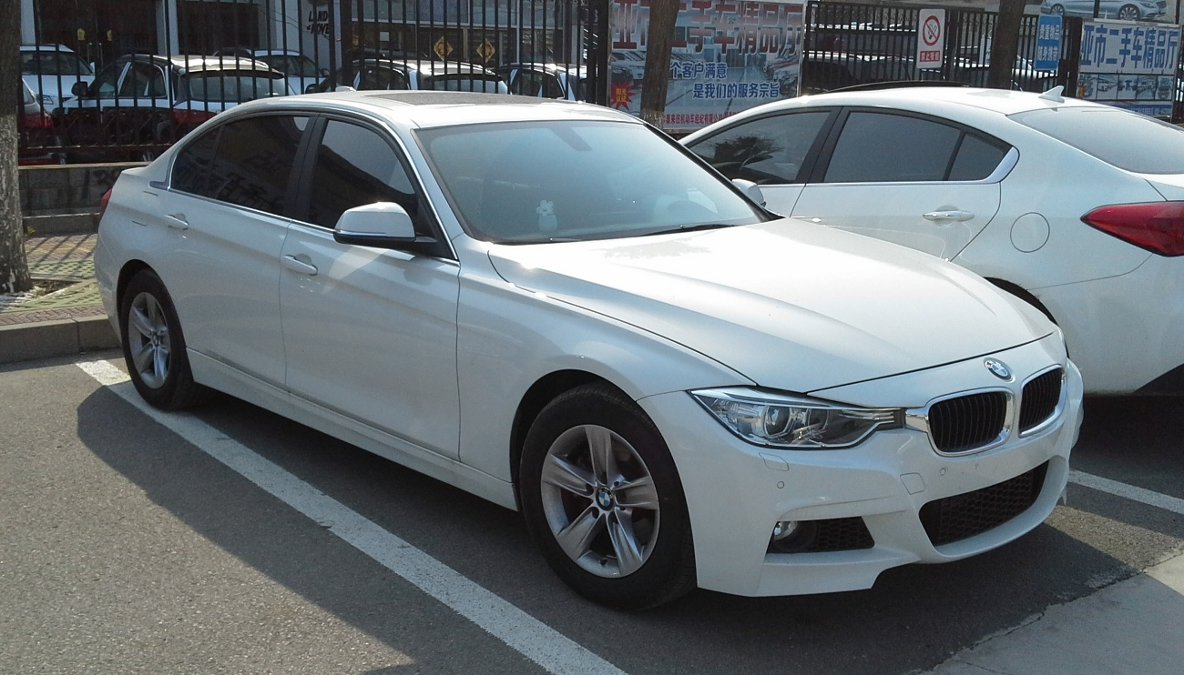 BMW 3-Series F35 Li photographed in Beijing, China.